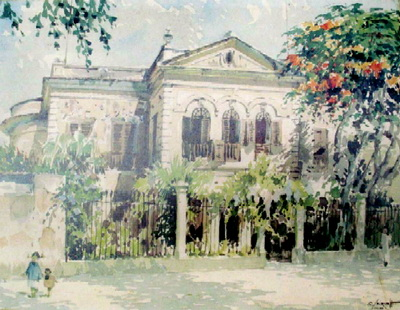 Colégio Mateus Ricci (primary) )